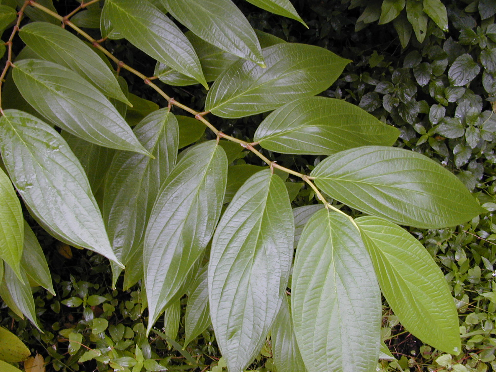 Piper aduncum (leaves). Location: Maui, Nahiku